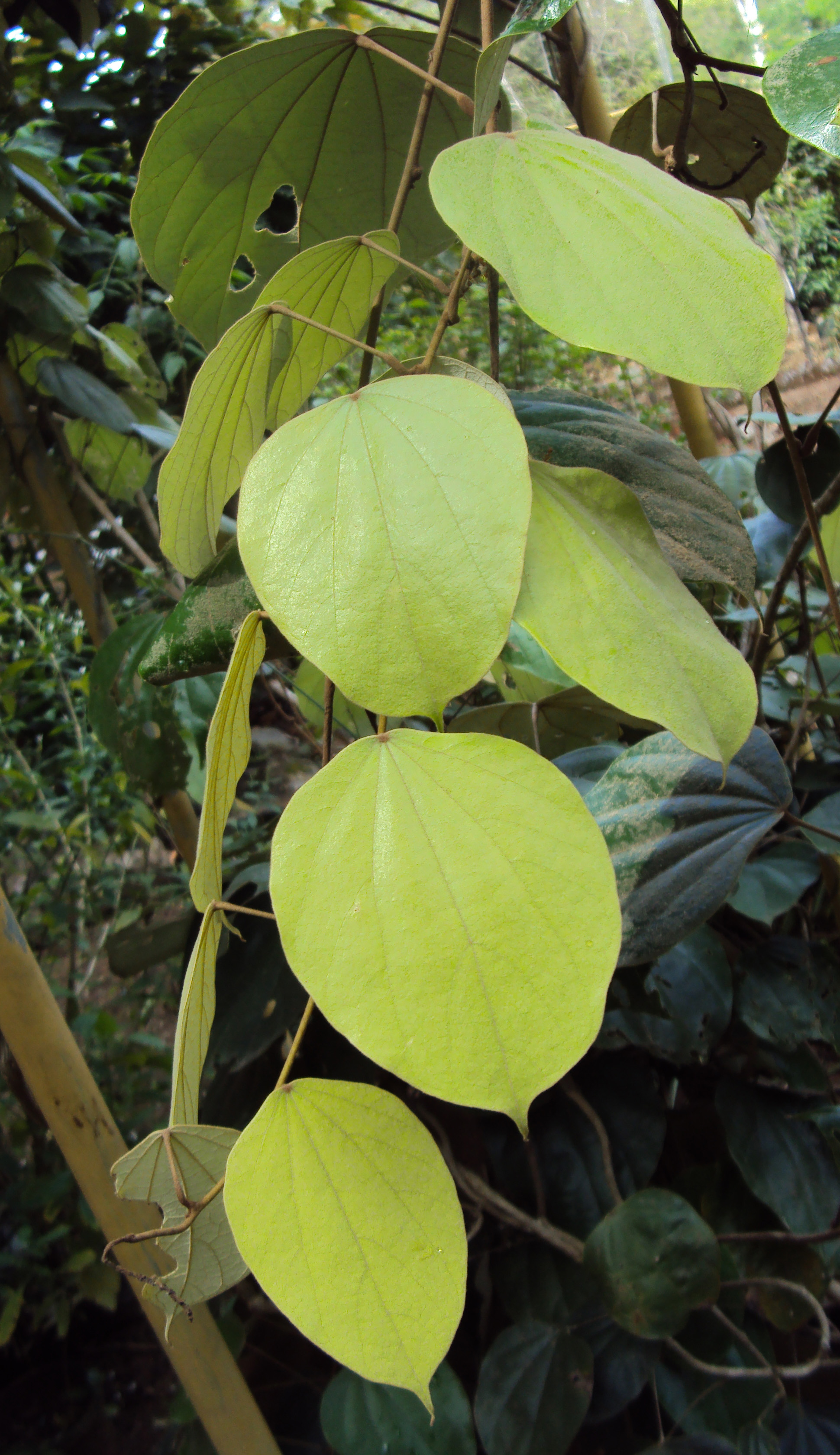 മരമഞ്ഞള്‍